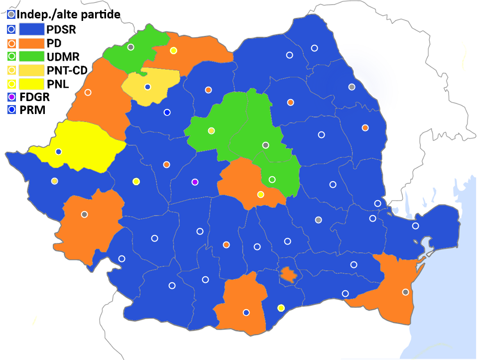 Romanian local elections map 2000 based on the party of county councils presidents and county residence mayors: blue=PDSR orange=PD yellow=PNL green=UDMR tan=PNT-CD/CDR purple=FDGR dark blue=PRM grey=independents/other parties